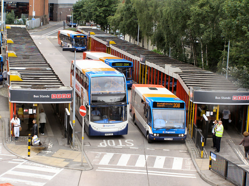 Stockport Bus Station, Data from Geograph: Description: Looking down from Wellington Road. ICBM: 53.409059739077, -2.163462821715 Location: (about 1 km from) near to Stockport, Great Britain.